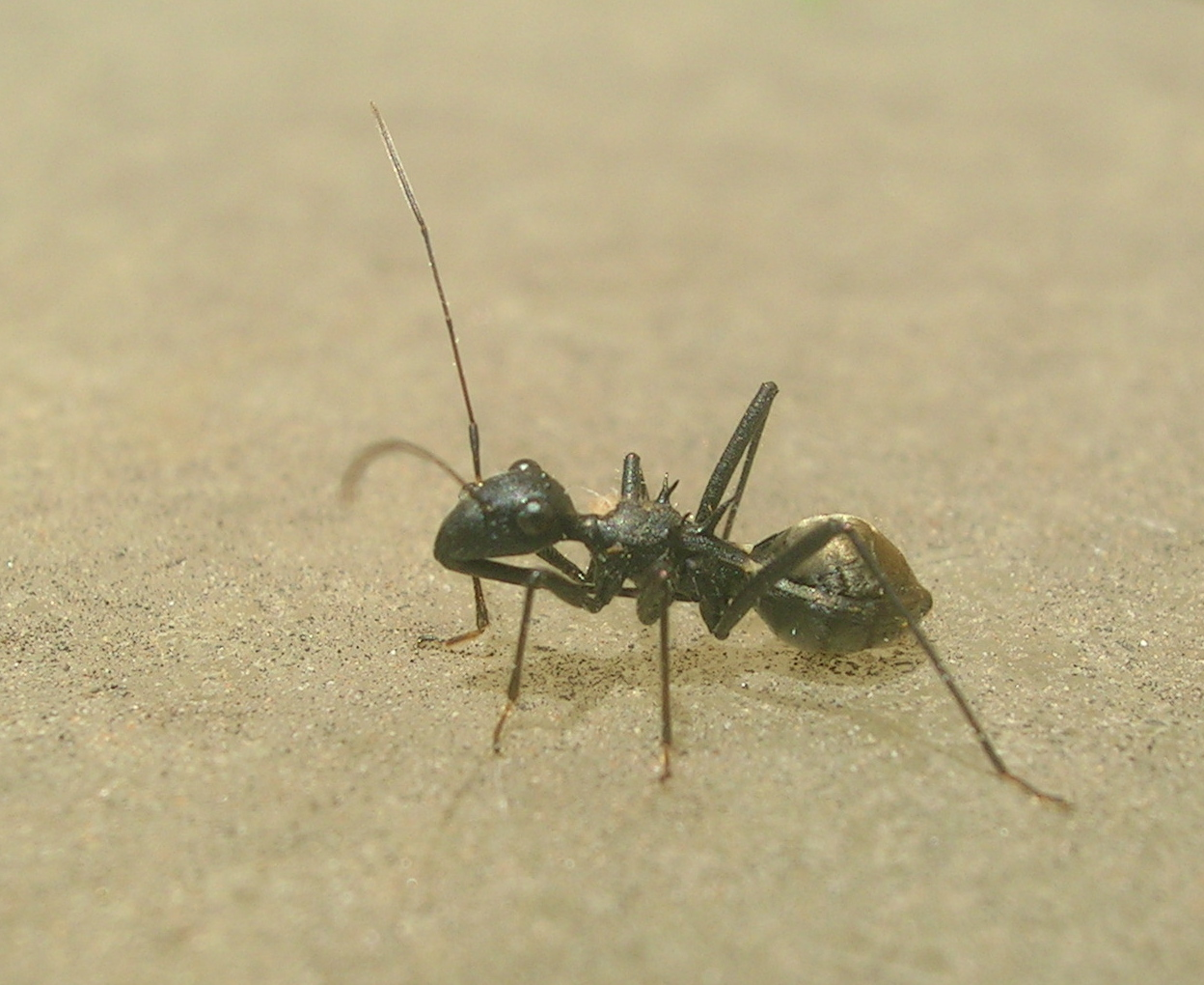 Profile view of Dulichius inflatus (Alydidae)